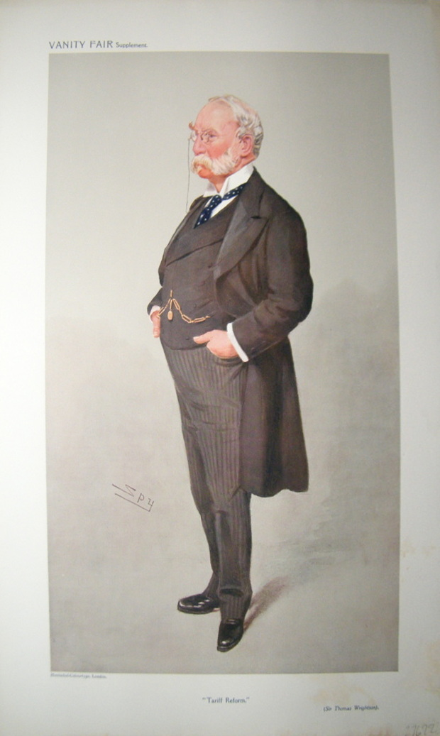 Men of the Day No.1117: Caricature of Sir Thomas Wrightson Bt MP. Caption reads: "Tariff Reform"